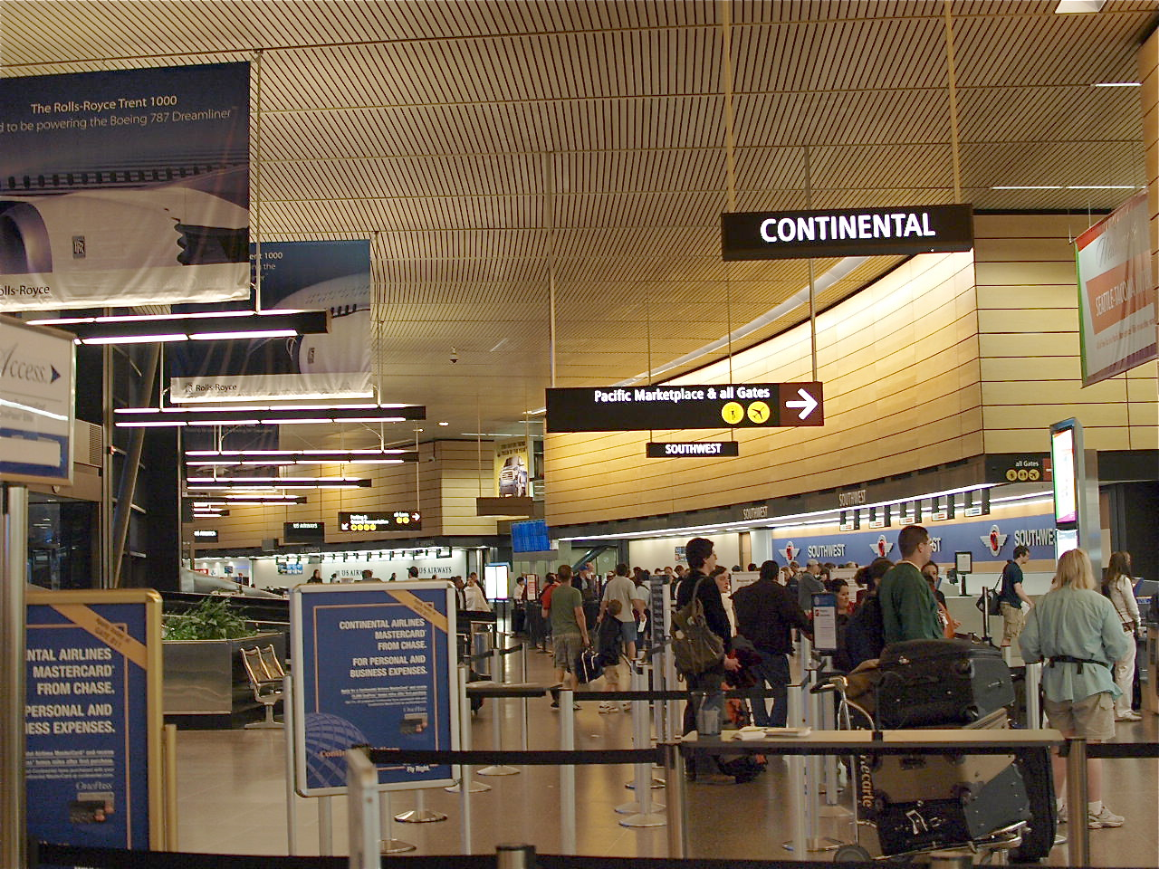 A section of the Seattle-Tacoma International Airport ticketing area. This section shows ticketing areas 4 & 5.